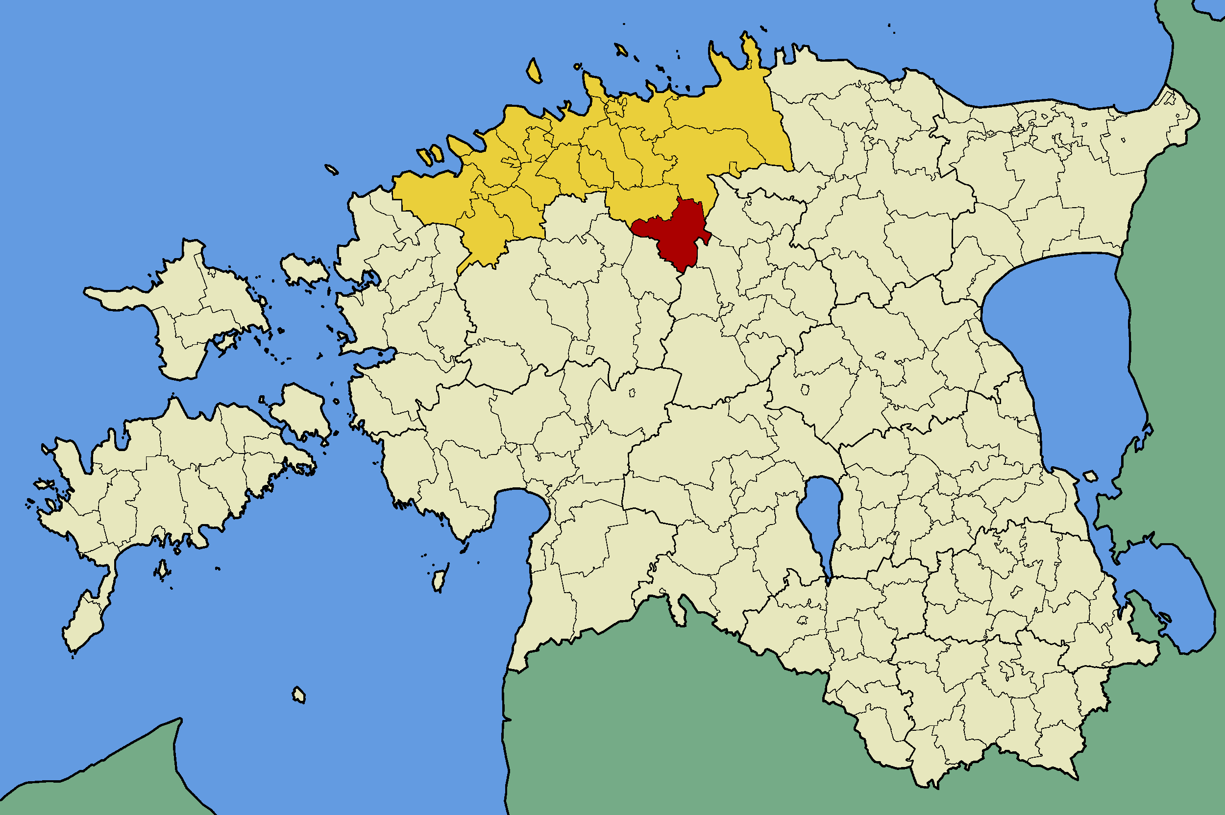 Map of Estonia with borders of municipalities (parishes). Harju county and Kõue municipality (parish) emphasized.